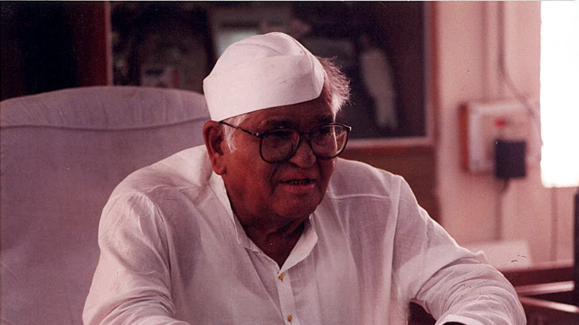 Karmaveer Shankarrao Kale was a founder member of The Kopargaon co-operative sugar factory. later it is renamed on his name as Karmaveer Shankarrao Kale Co-opeative sugar factory (Karmaveer Shankarrao Kale Sahakari Sakhar Karkhana)